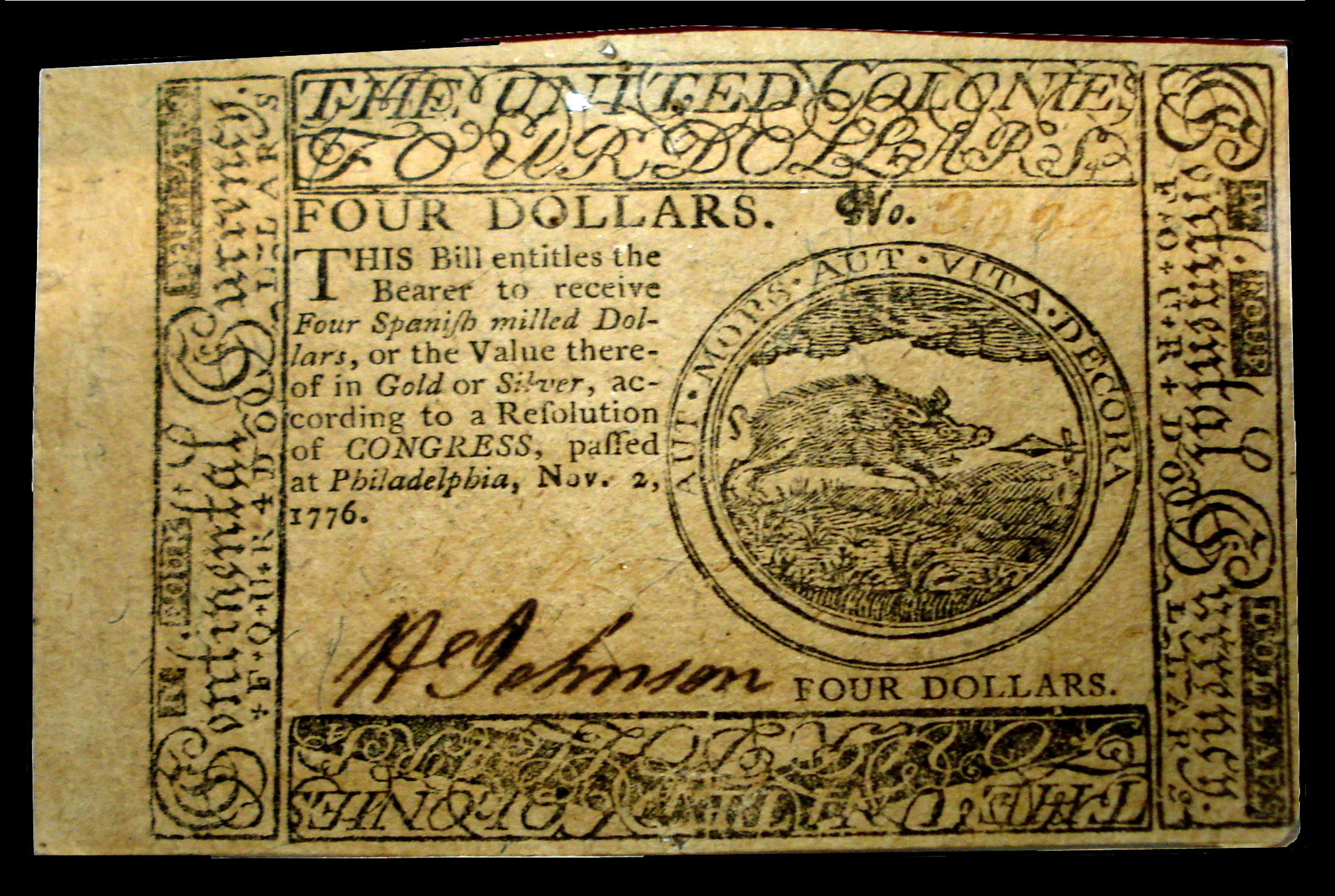 A "Continental" bill of four Spanish dollars issued by the U.S. Continental Congress in 1776. Archivo General de Indias, Seville, Spain.